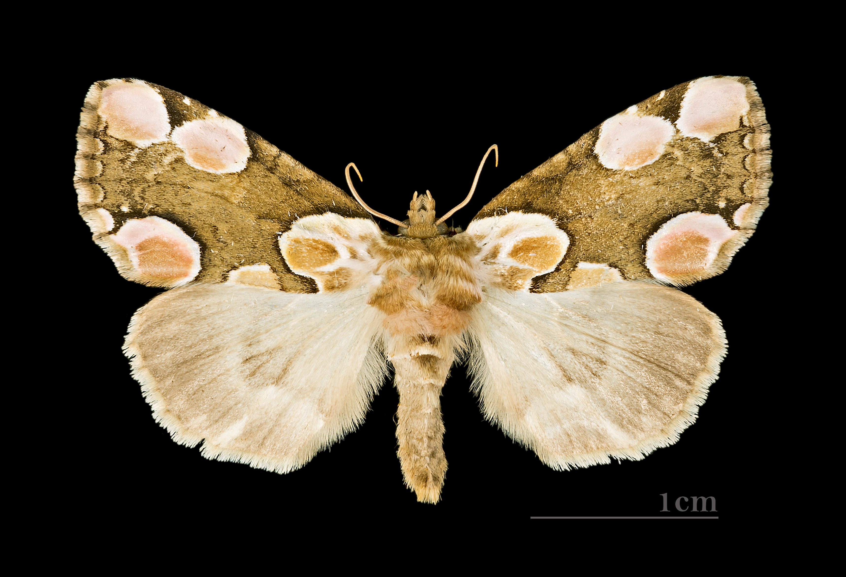 Peach Blossom. Dorsal side